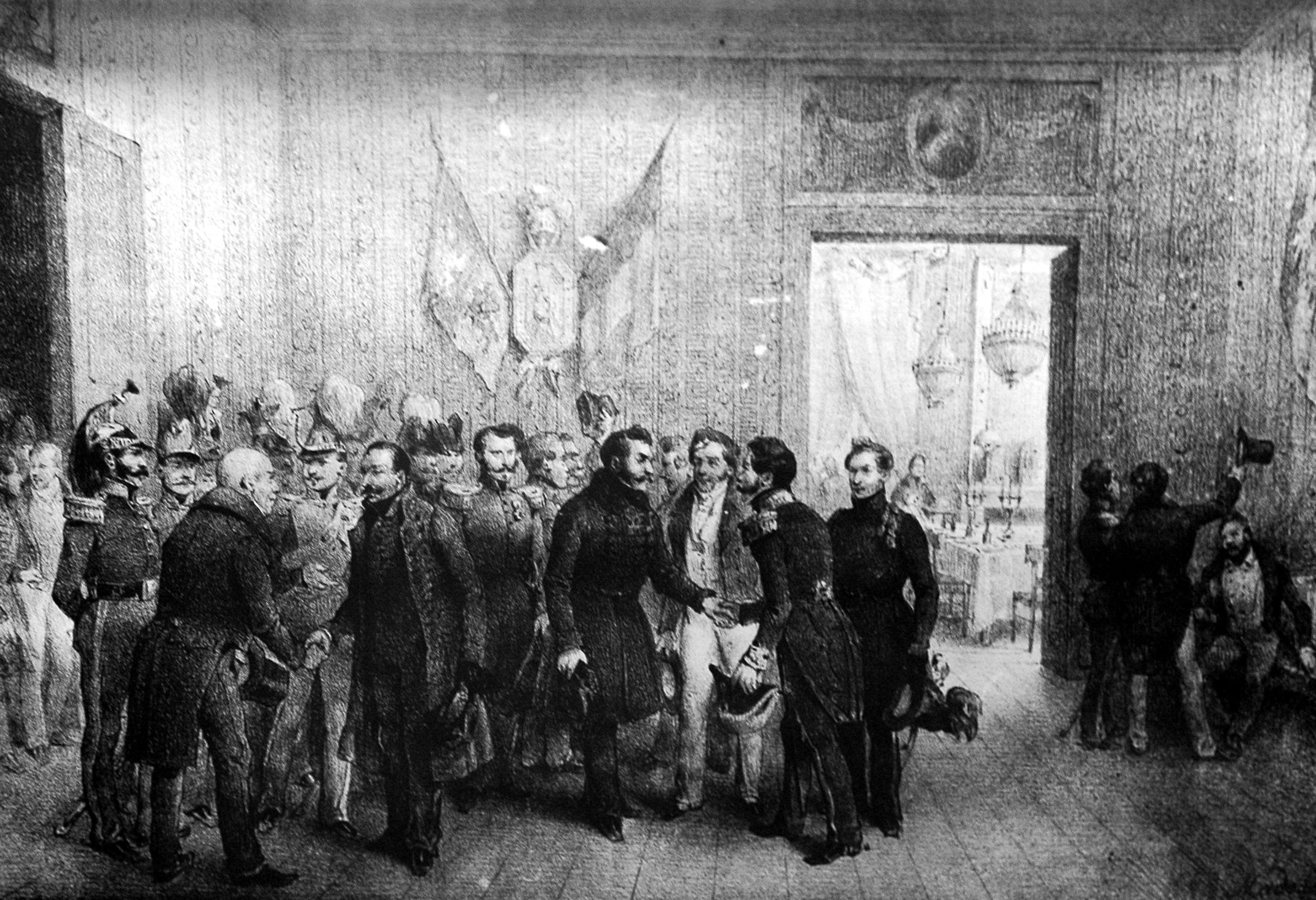 Made on a summer day in the Museum of the Polish Army in Warsaw A series of anonymous xylographs depicting the early stages of the November Uprising in Warsaw, as well as the aftermath of the fights - the Great Emigration Polish emmigrants in Belgium